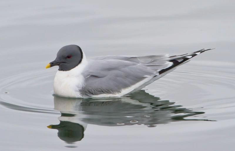 A Sabine's Gull in Iceland.